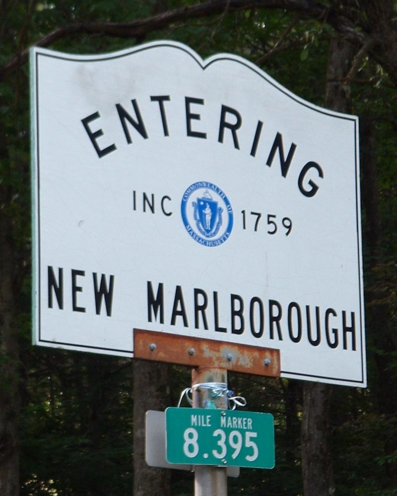 Entering New Marlborough - Inc. 1759 New Marlborough-Monterey town line, Route 57.